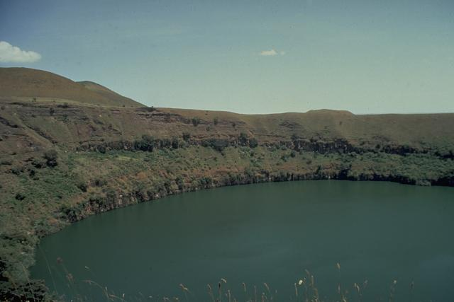 Ara-Shetan maar, located at the south end of the Butajiri-Silti volcanic field.